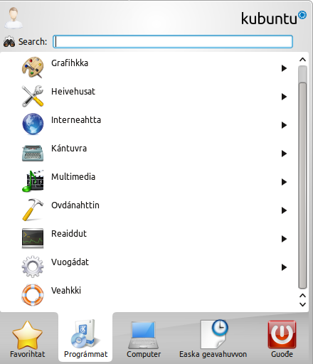 Kubuntu 10.10 KDE 4.5.1 Kickstart menu Northern Sami.